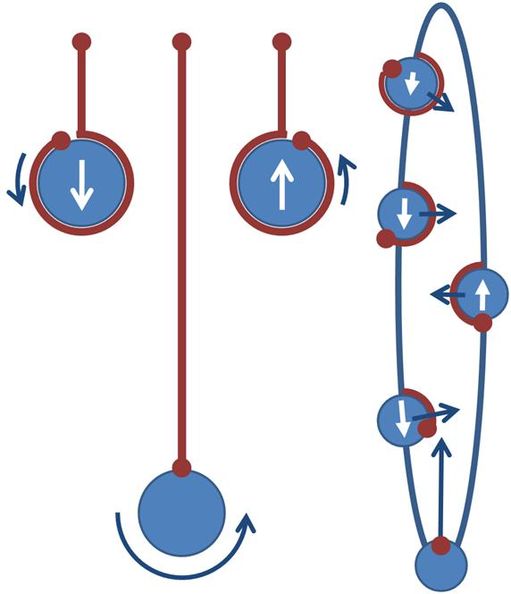 Yo-yo motion